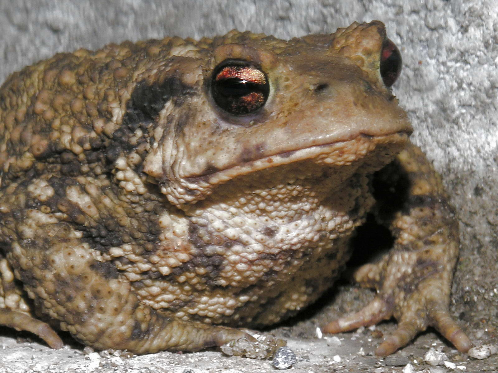 Bufo bufo